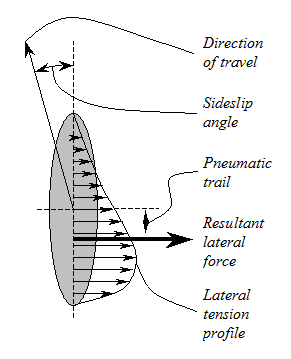 Diagram of tire interaction with the ground